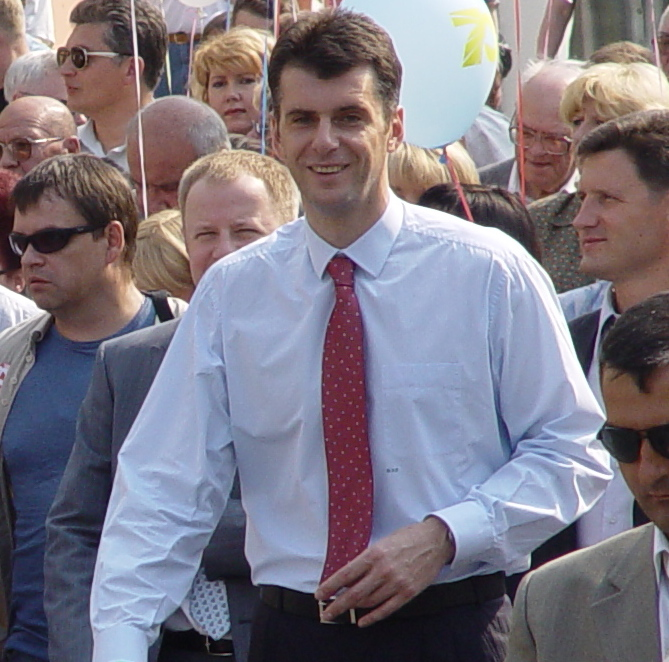 Provided by Norilsk Nickel